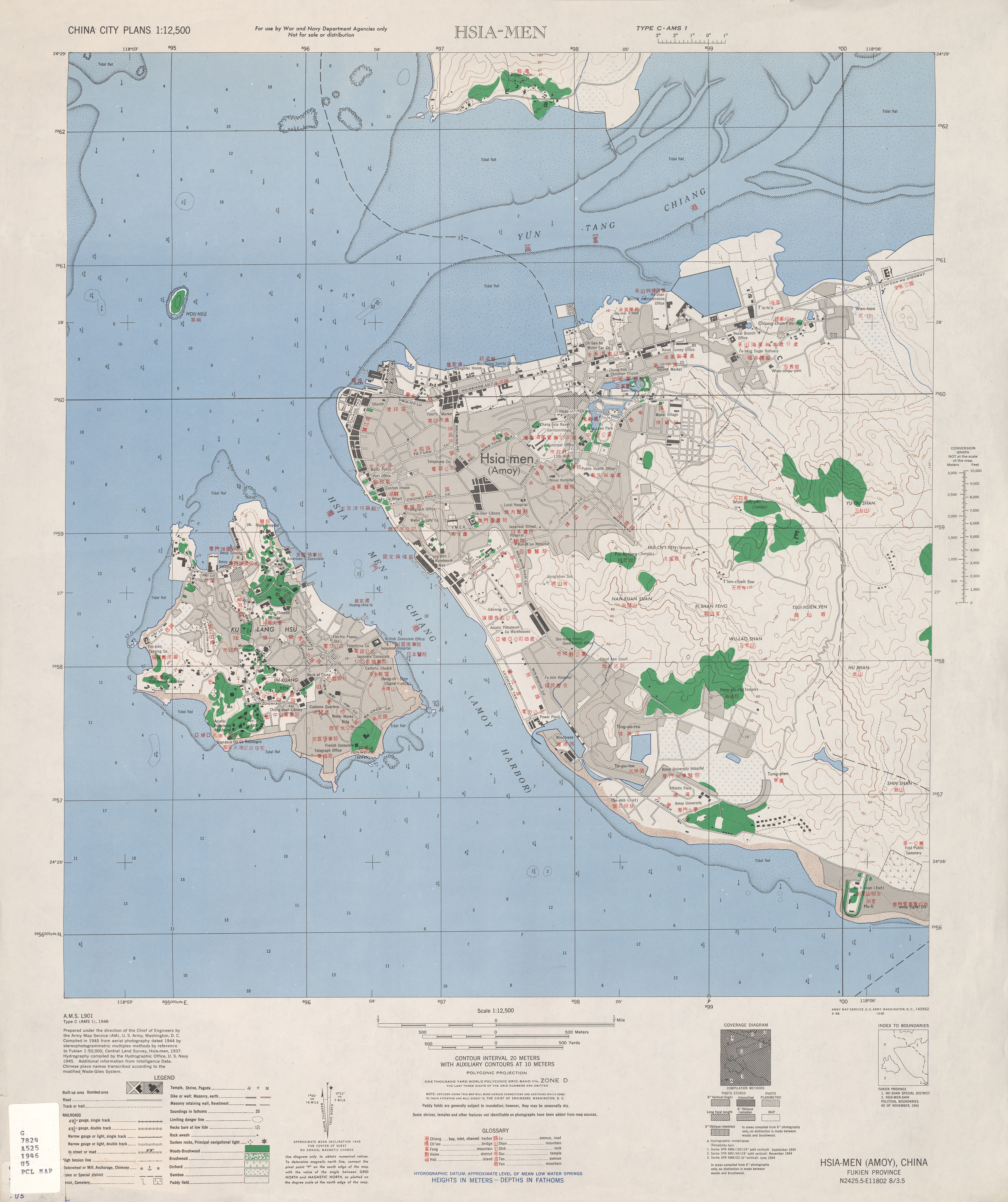 Map of Amoy, Fujian, China. Printed by US Army Map Service.